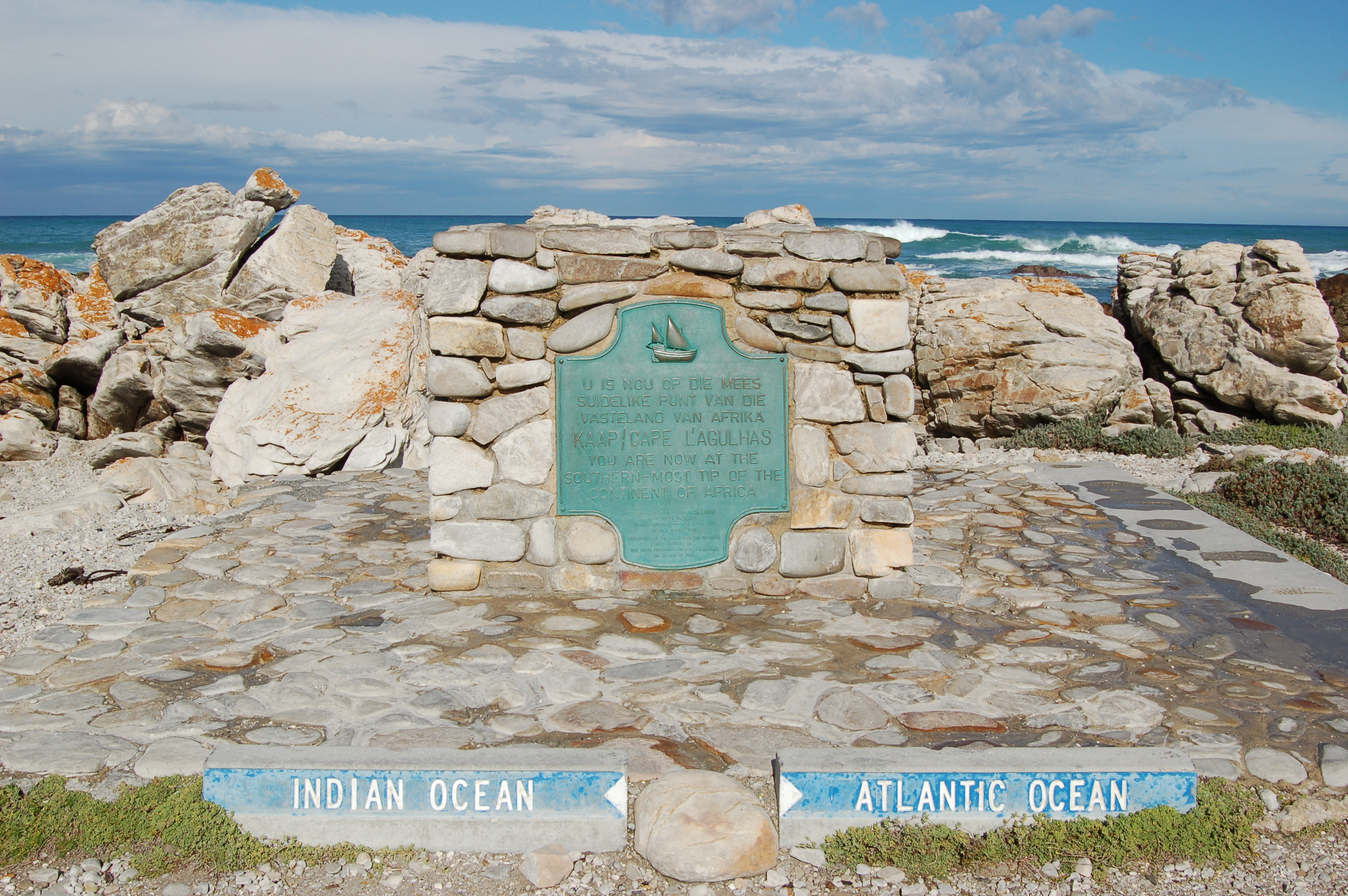 Cape Agulhas, South Africa. The Southern-Most Tip of the Continent of Africa